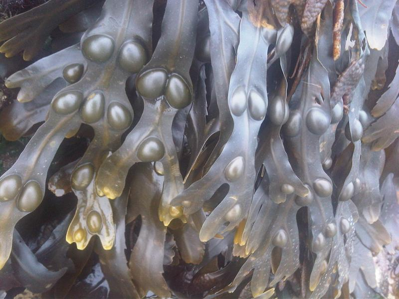 Bladder wrack (Fucus vesiculosus) from Broadstairs, England.